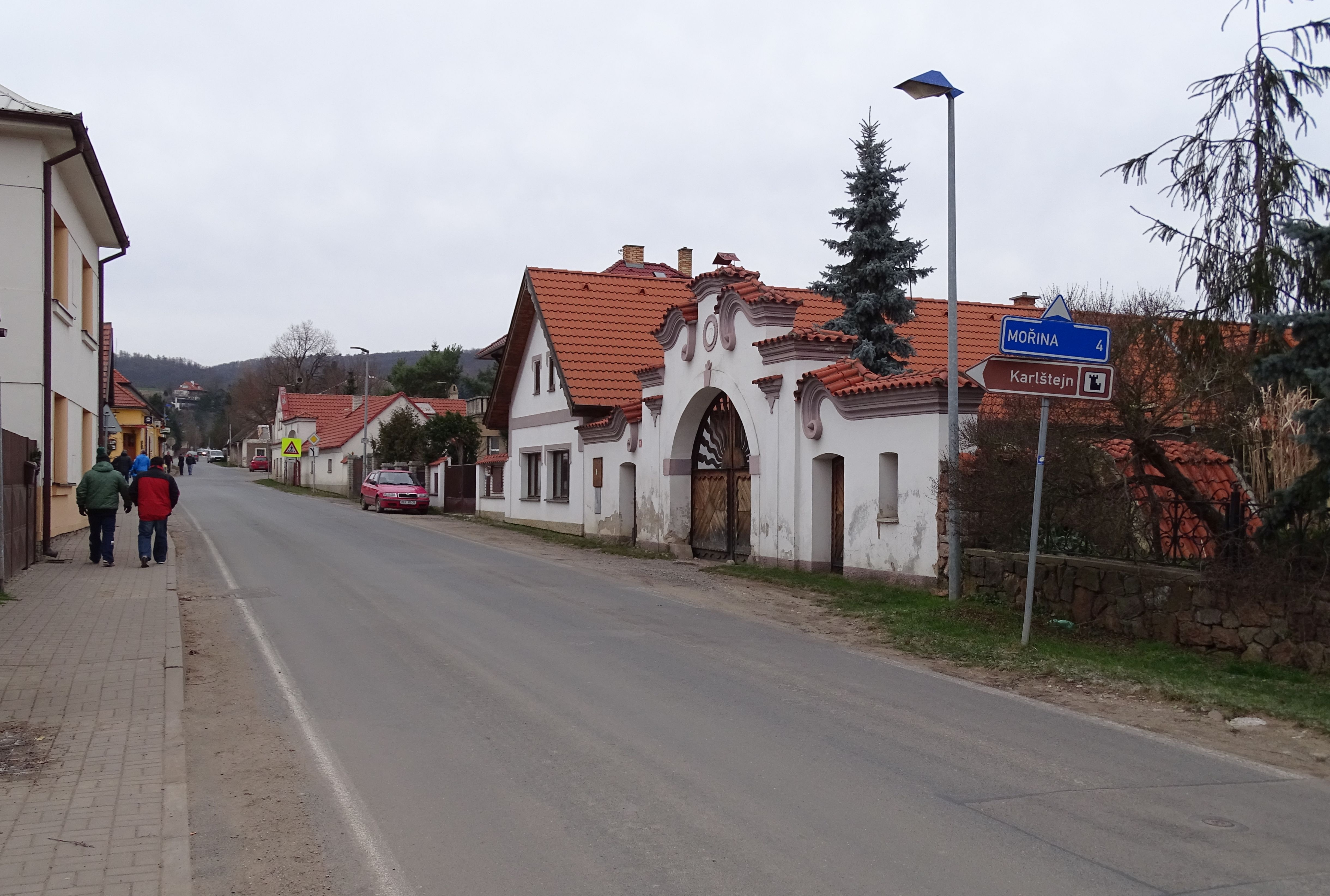 Hlásná Třebaň, Beroun District, Central Bohemian Region, Czech Republic. U Kapličky 68, 32.